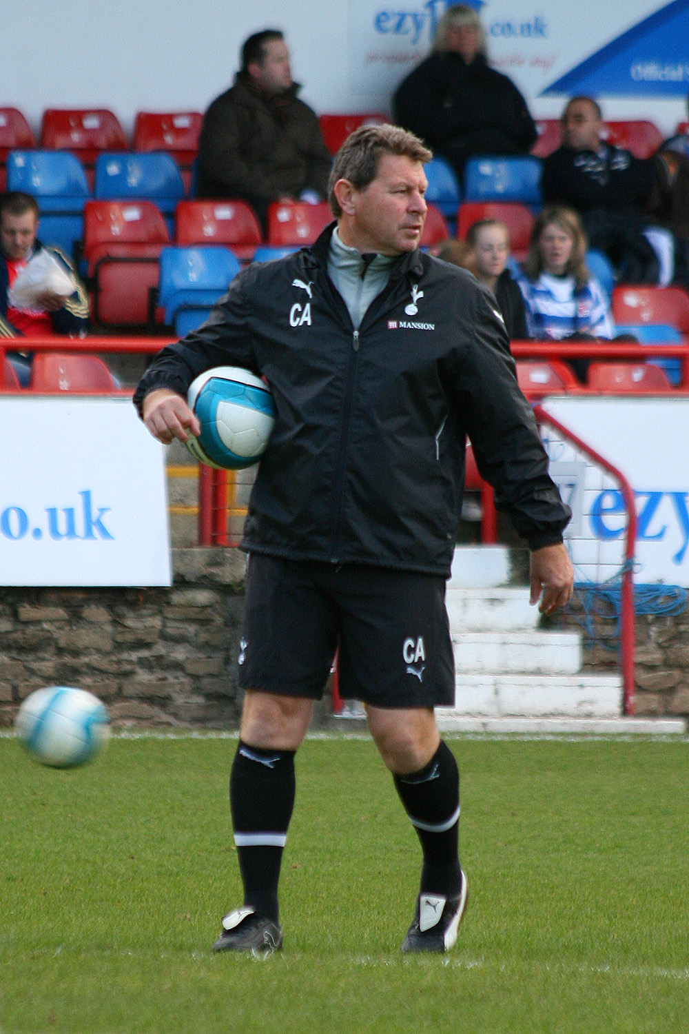 Clive Allen coaching Tottenham Hotspur Reserves